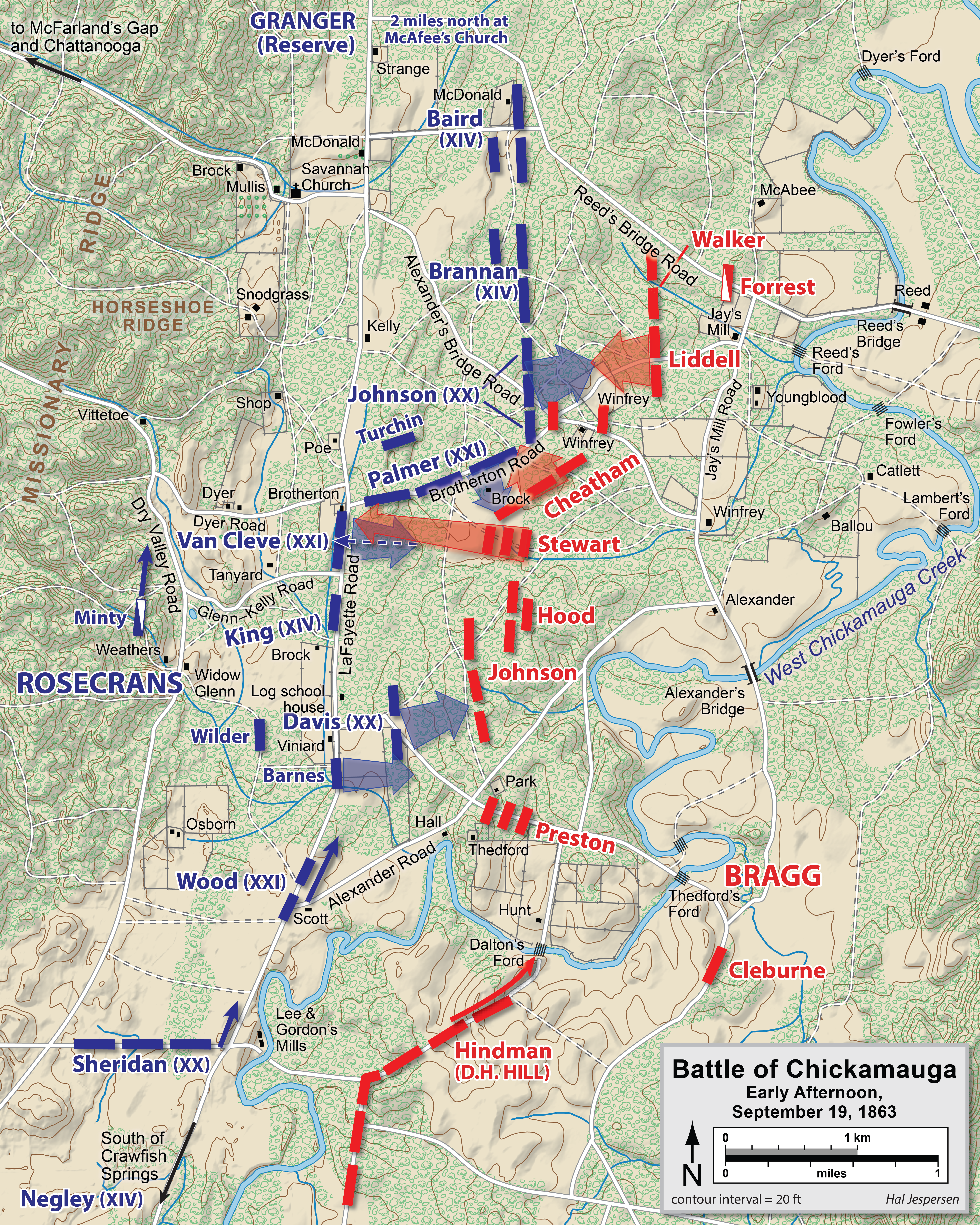 Map of the Battle of Chickamauga (part 2) of the American Civil War. Drawn in Adobe Illustrator CS5 by Hal Jespersen. Graphic source file is available at